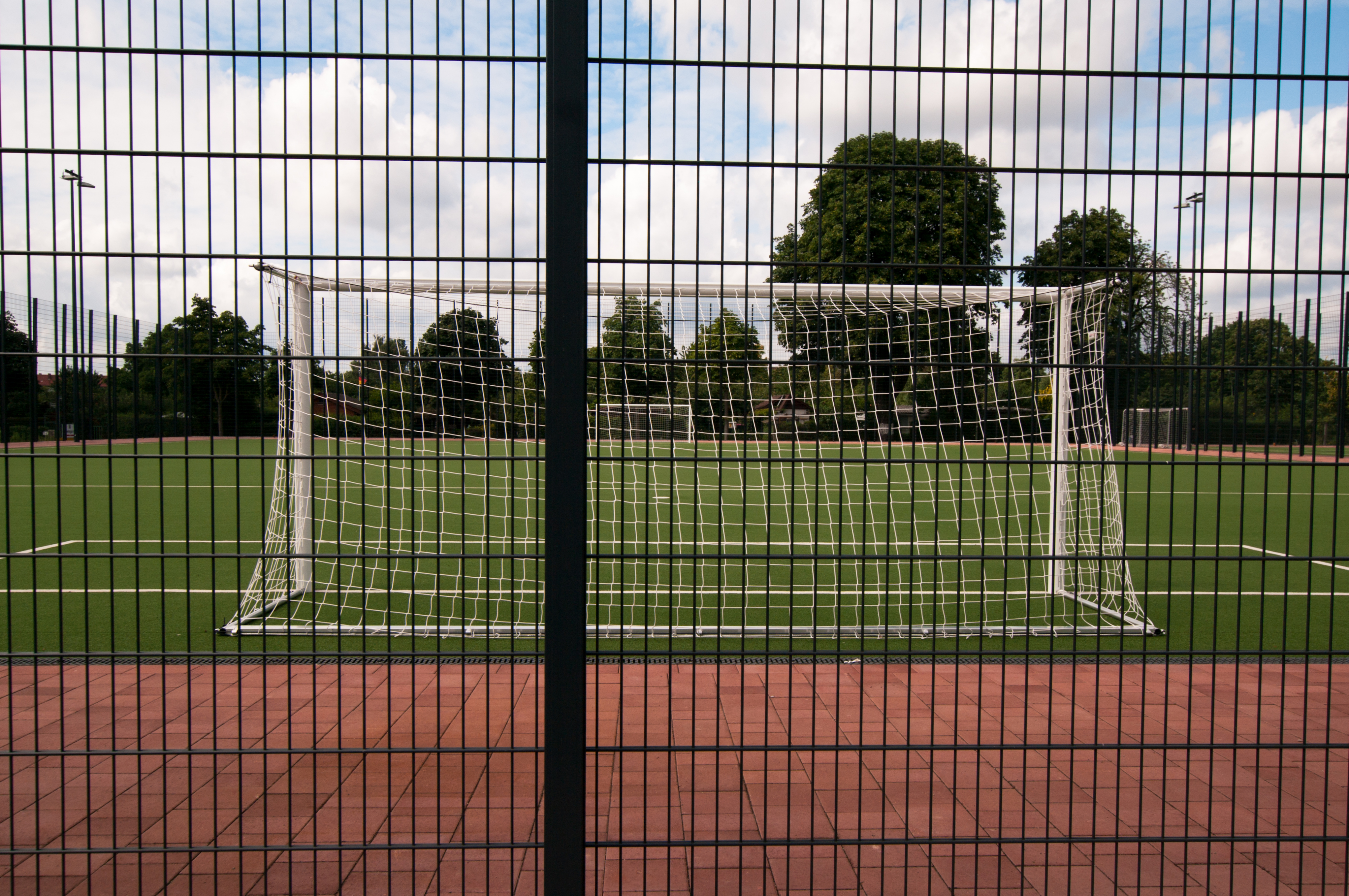 Football playing field in BerlinSchöneberg.